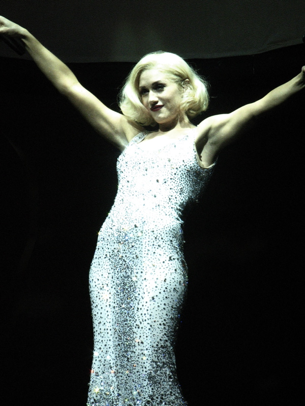 Gwen Stefani performing "Cool"i know we're cool